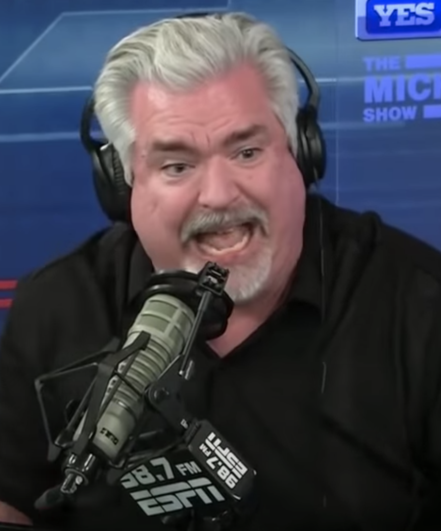 Don Le Greca losing it after a call from a listener on The Michael Kay Show